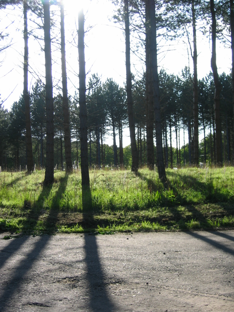 Arhcerfield Estate woodland, East Lothian, Scotland